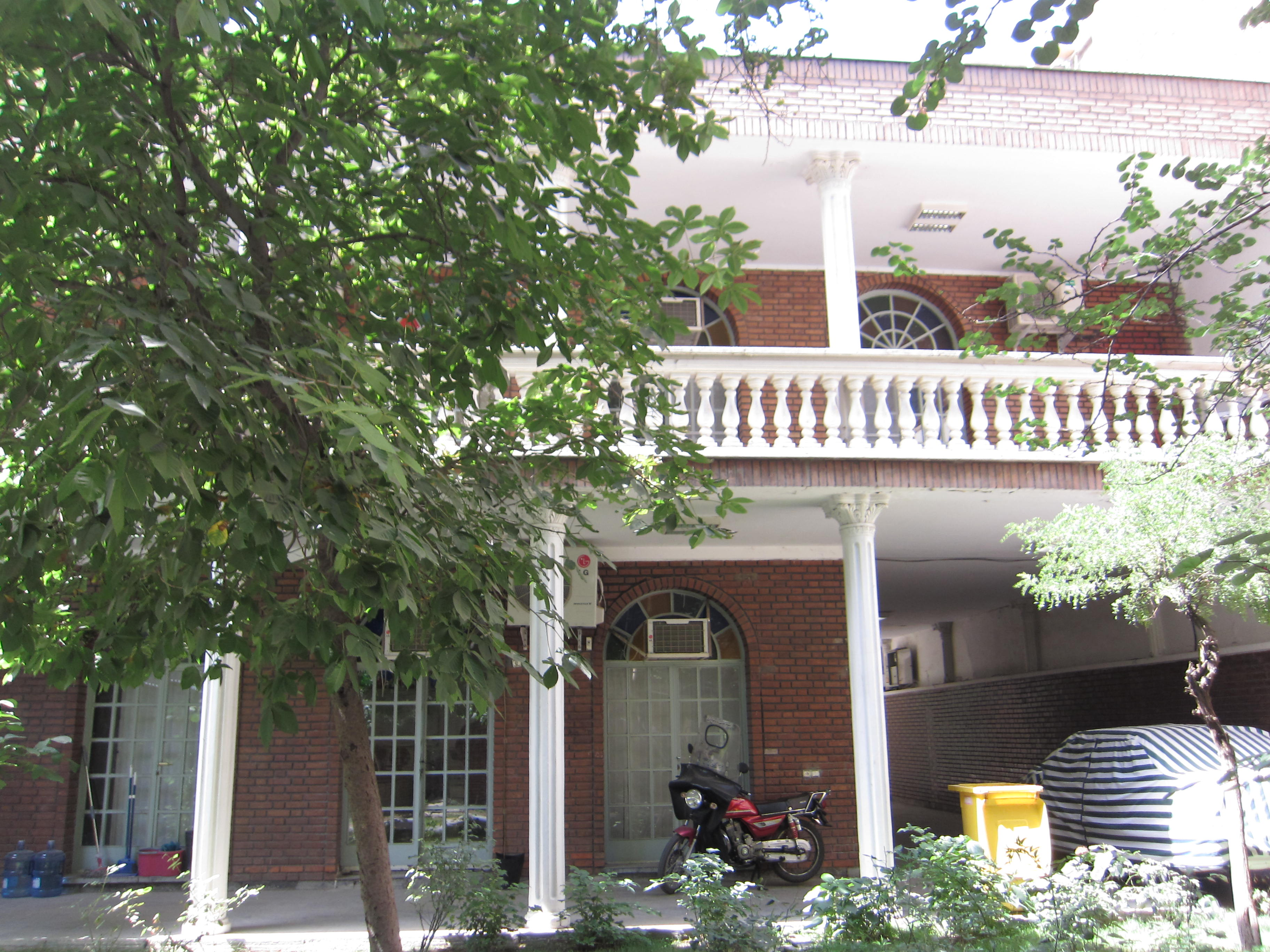 House of Hushang Ebtehaj in Tehran